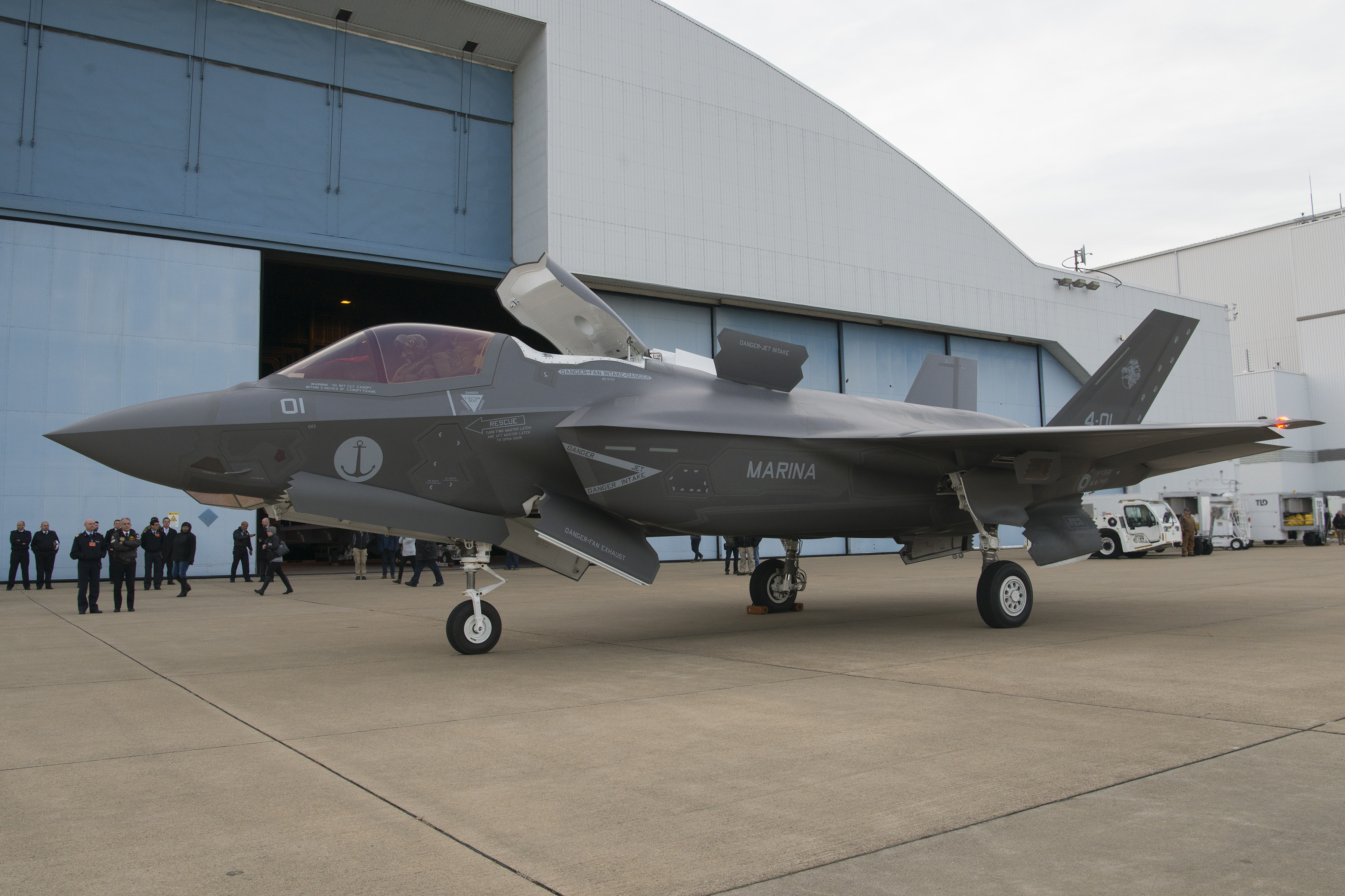 An Italian Lockheed Martin F-35B Lightning II (serial BL-1) arrived at Naval Air Station Patuxent River, Maryland (USA), on 31 January 2018. This is the first Italian F-35 "B" variant.